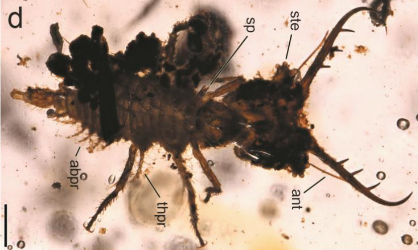 Figure 2 Diversity of the larvae of Myrmeleontiformia in mid-Cretaceous Burmese amber. D) Burmitus tubulifer holotype BA12013, habitus, dorsal view. Abbreviations: abpr, abdominal processes; ant, antenna; sp, spiracle; ste, stemmata; thpr, thoracic processes. Scale bars: 0.5 mm.